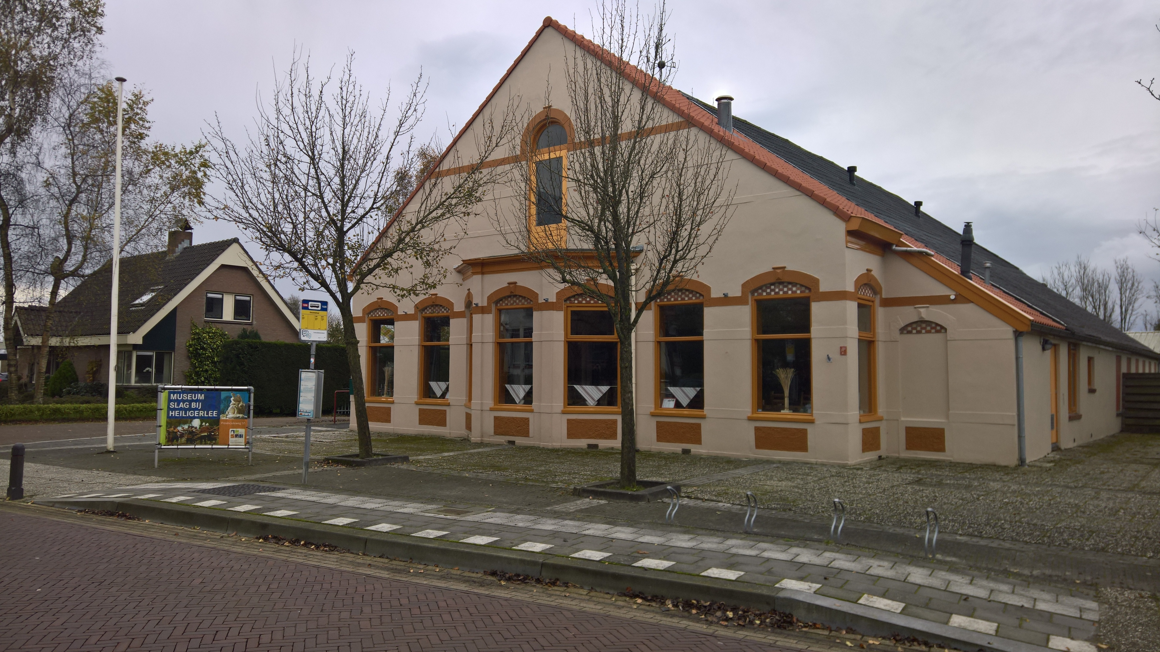 A museum 🎨 for the first battle against the Spanish in the Dutch war of independence.